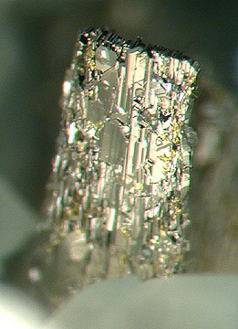 Krennerite Locality: Cresson Mine, Eclipse Gulch, Cripple Creek District, Teller County, Colorado, USA (Locality at ) Size: 3.0 x 2.7 x 2.5 cm. This rare gold silver telluride forms in some of the finest crystals in the world in the Cripple Creek Mining District. Fine crystals of Krennerite on matrix are virtually impossible to obtain anymore as the mines around Cripple Creek have long been defunct. This specimen features a few sharp, lustrous, platy, silvery colored crystals of Krennerite on Quartz matrix. These specimens are virtually impossible to obtain on the market these days.